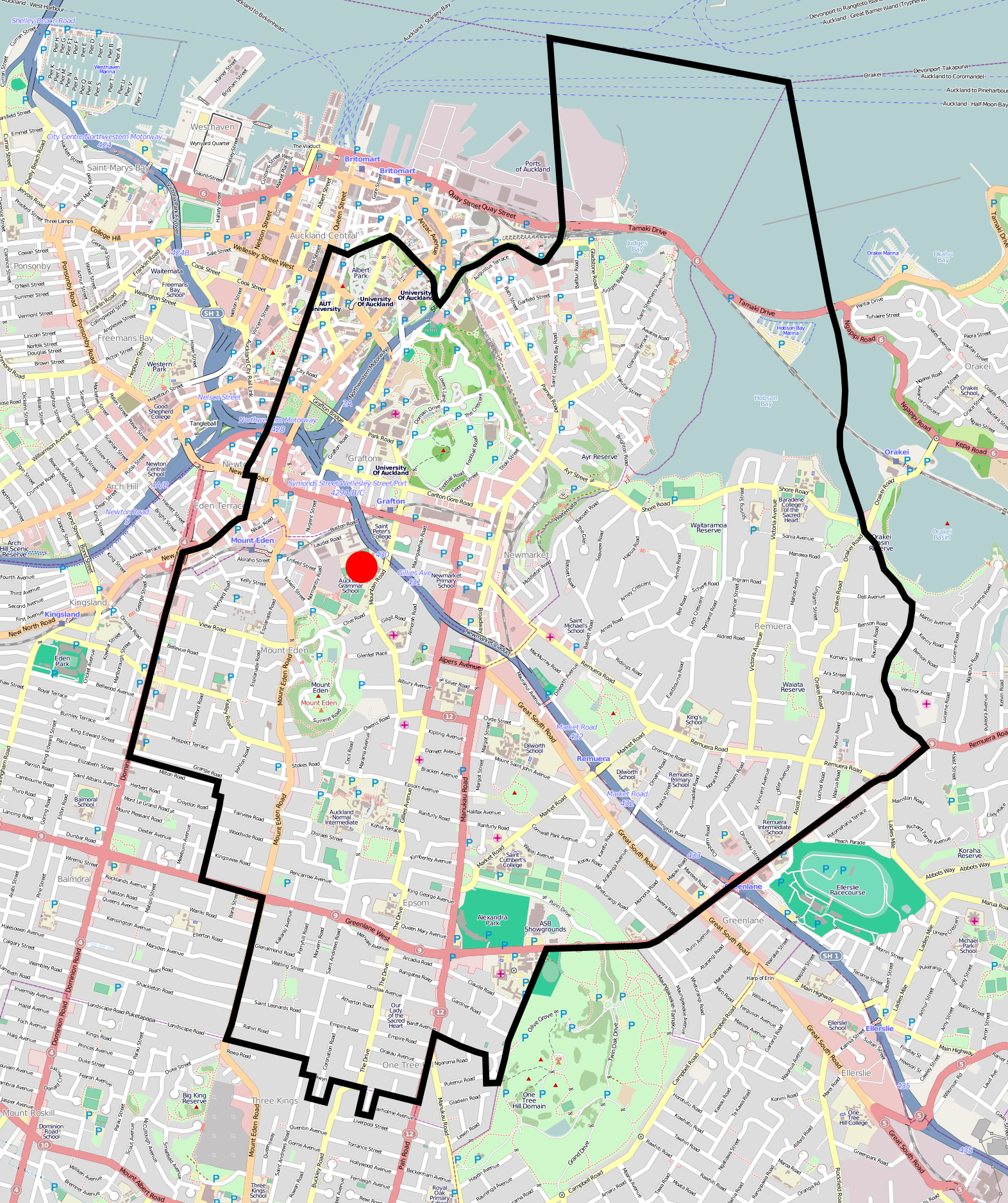 The enrolment zone for Auckland Grammar School in Auckland, New Zealand as of January 2013. Auckland Grammar's location is marked by the red circle. Students resident within the bounds of the black line are entitled to enroll at Auckland Grammar without rejection. All other students are admitted if spaces exist by secret ballot, with priority given to siblings (brothers) of current students.